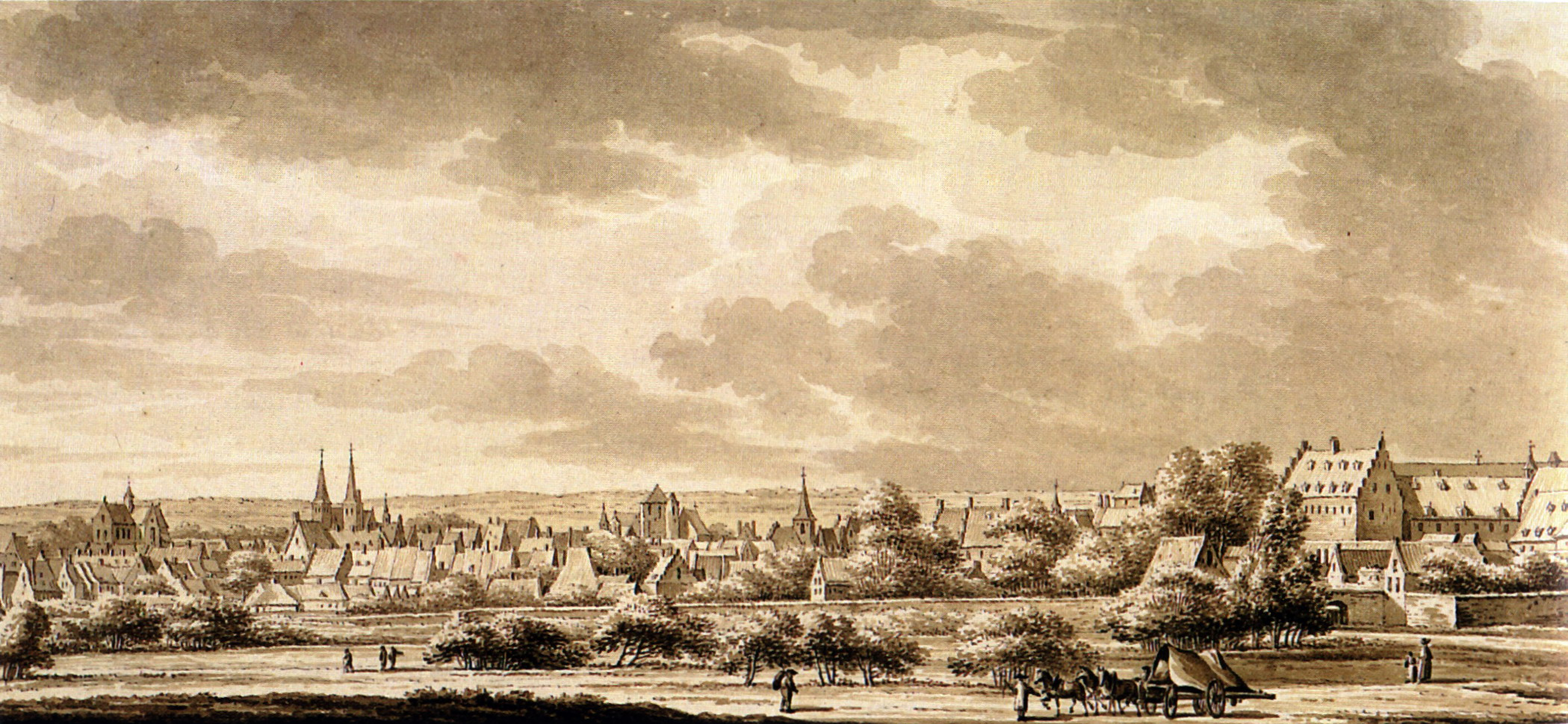 View from the west of Maastricht, the Netherlands. Drawing by Jan de Beijer, c 1740.